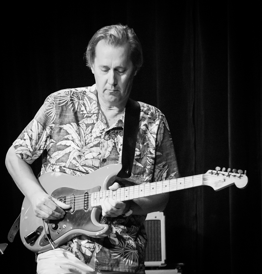 Knut Værnes performs with Cutting Edge at the stage of Nasjonal Jazzscene Victoria. The concert was part of the Oslo Jazz Festival in Norway and took place on 17. August 2016. Lineup: Rune Klakegg (keyboard) Morten Halle (tenor saxophone) Knut Værnes (guitar) Edvard Askeland (bass guitar) Frank Jakobsen (drums) Stein Inge Brækhus (drums)